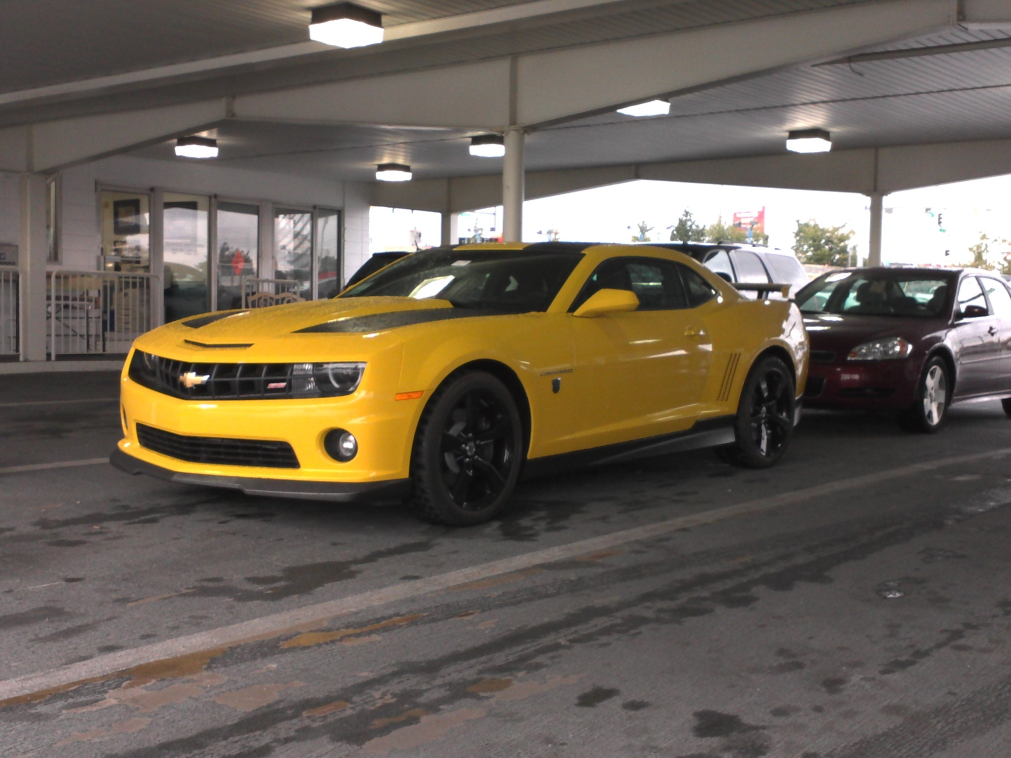 2012 Camaro SS coupe Transformers Edition